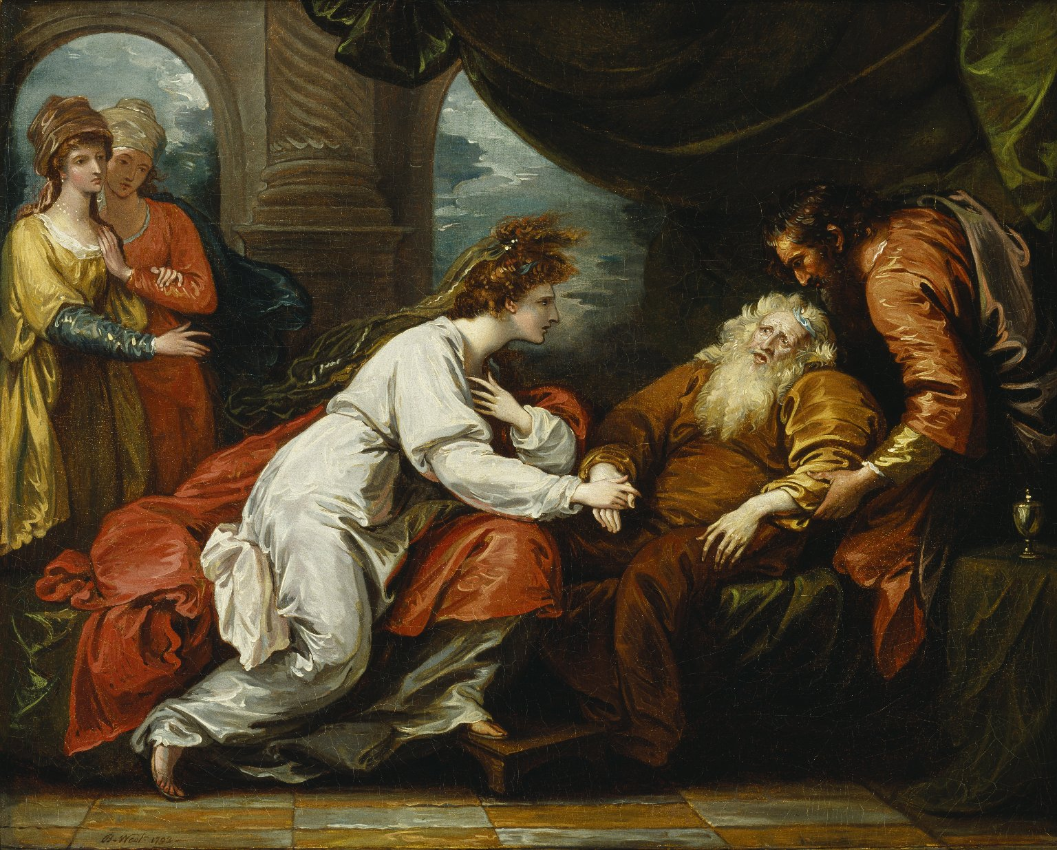 From Act IV, Scene 7 of William Shakespeare's King Lear